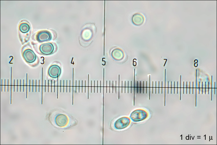 The spores of the mushroom Hygrophorus eburneus (Bull.) Fr.